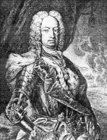 Ján Pálffy, The Captain of Košice, beginning of 18th century